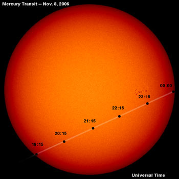 Transit of Mercury, 2006-11-08